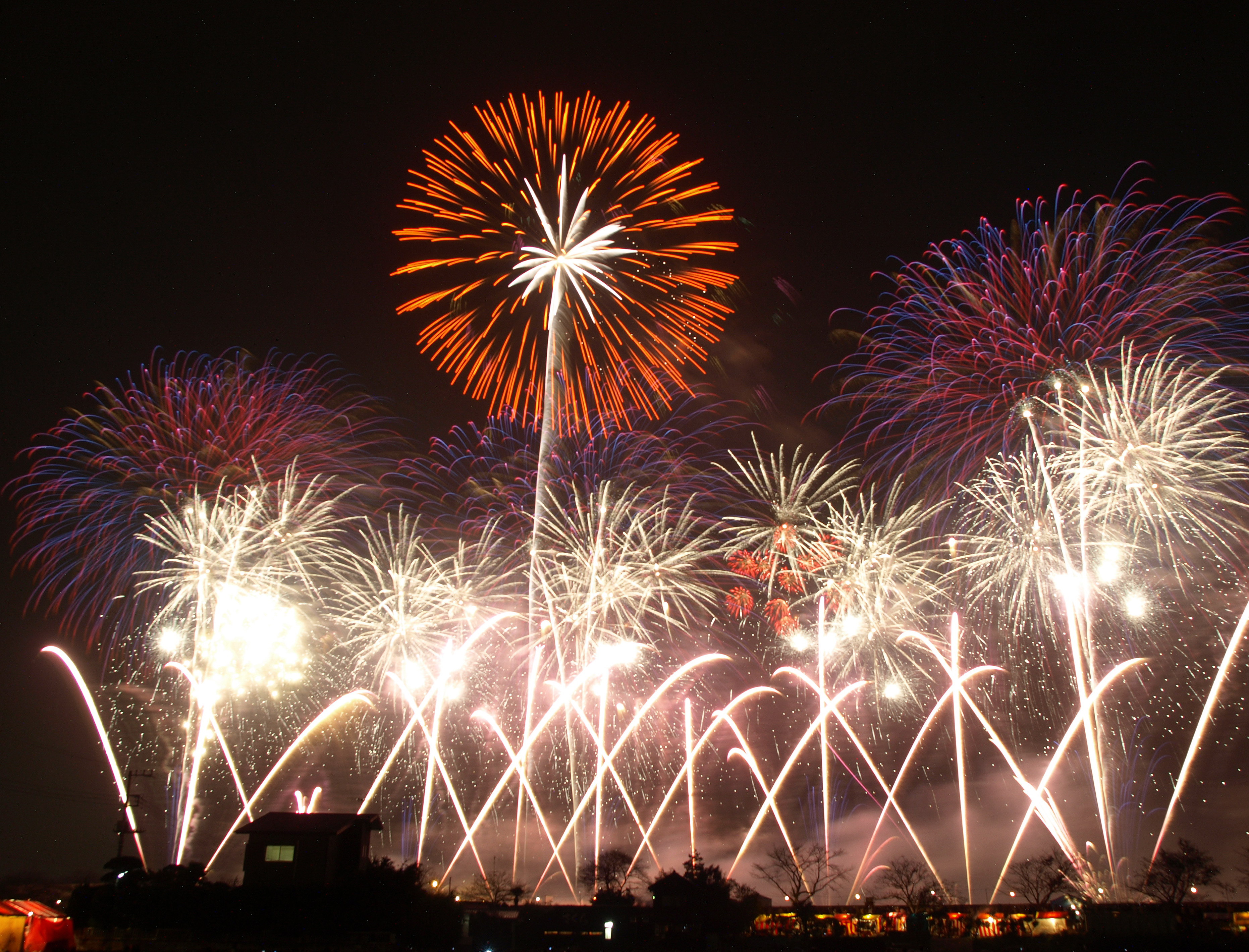 78th Tsuchiura All Japan Fireworks Competition. Olympus E-510